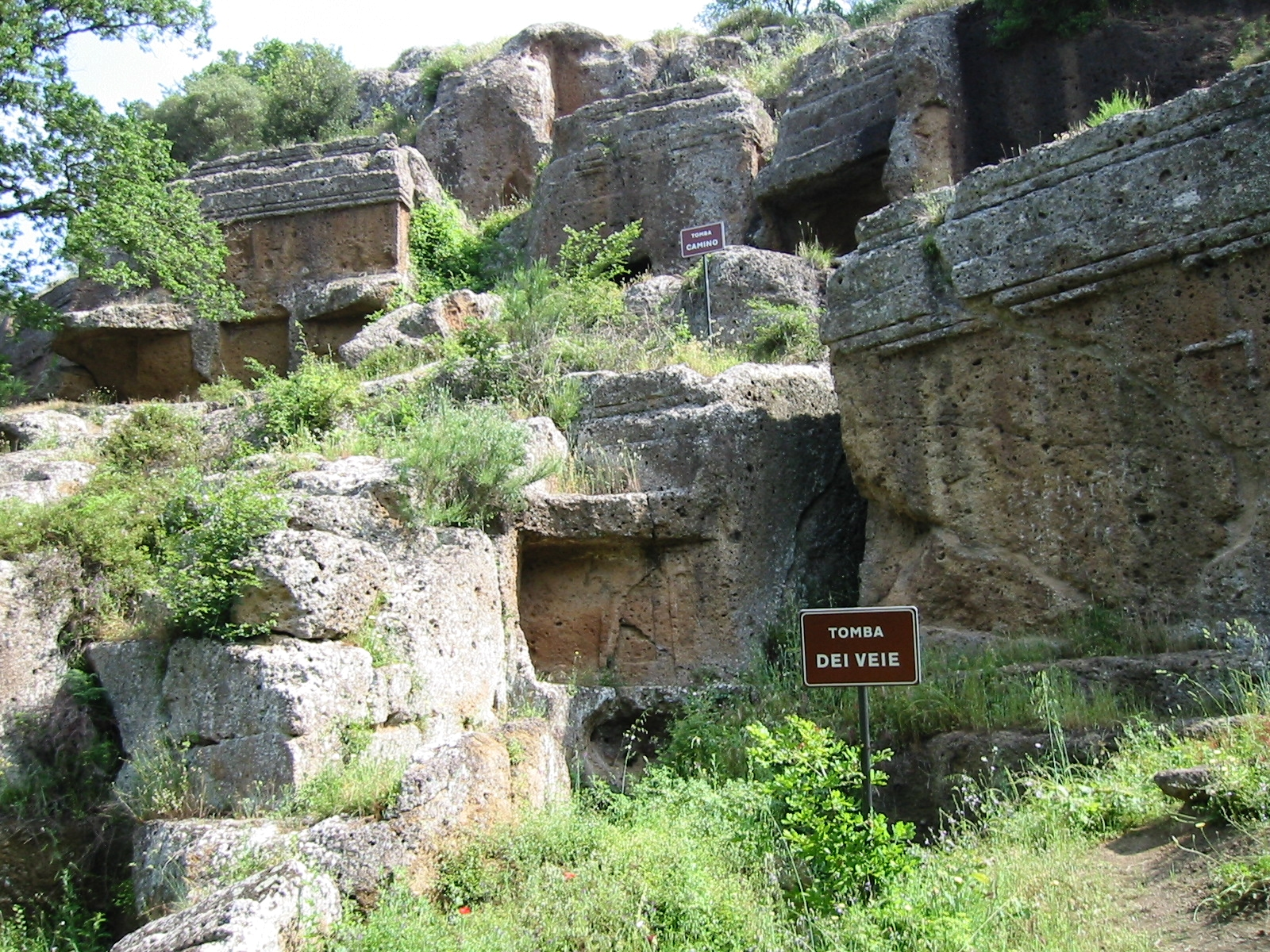 Necropolis of Norchia Tombs carved into the stone at the etruscan necropolis of Norchia, near Viterbo in Italy.